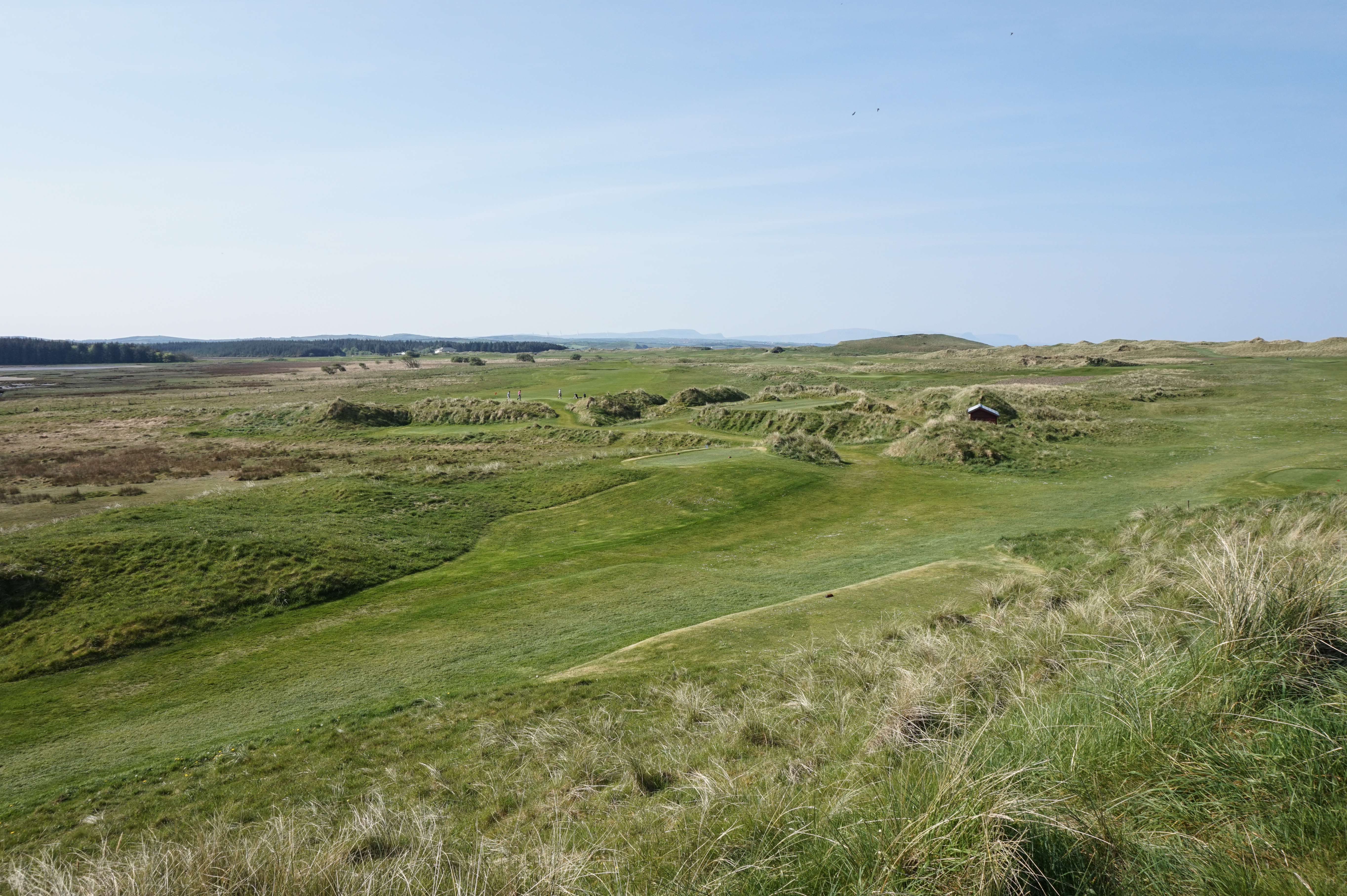 A view of the Donegal Golf Club, Murvagh, County Donegal, Ireland